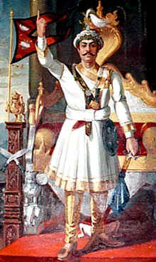 Portrait of king Prithvi Narayan Shahdev of Nepal, who died in 1775. Source: the private collection of Dr. Kunwar Sumerendra Vir Singh Chauhan, direct descendant of Sri Panch Maharaja Dhiraj Prithvi Narayan Shahdev.